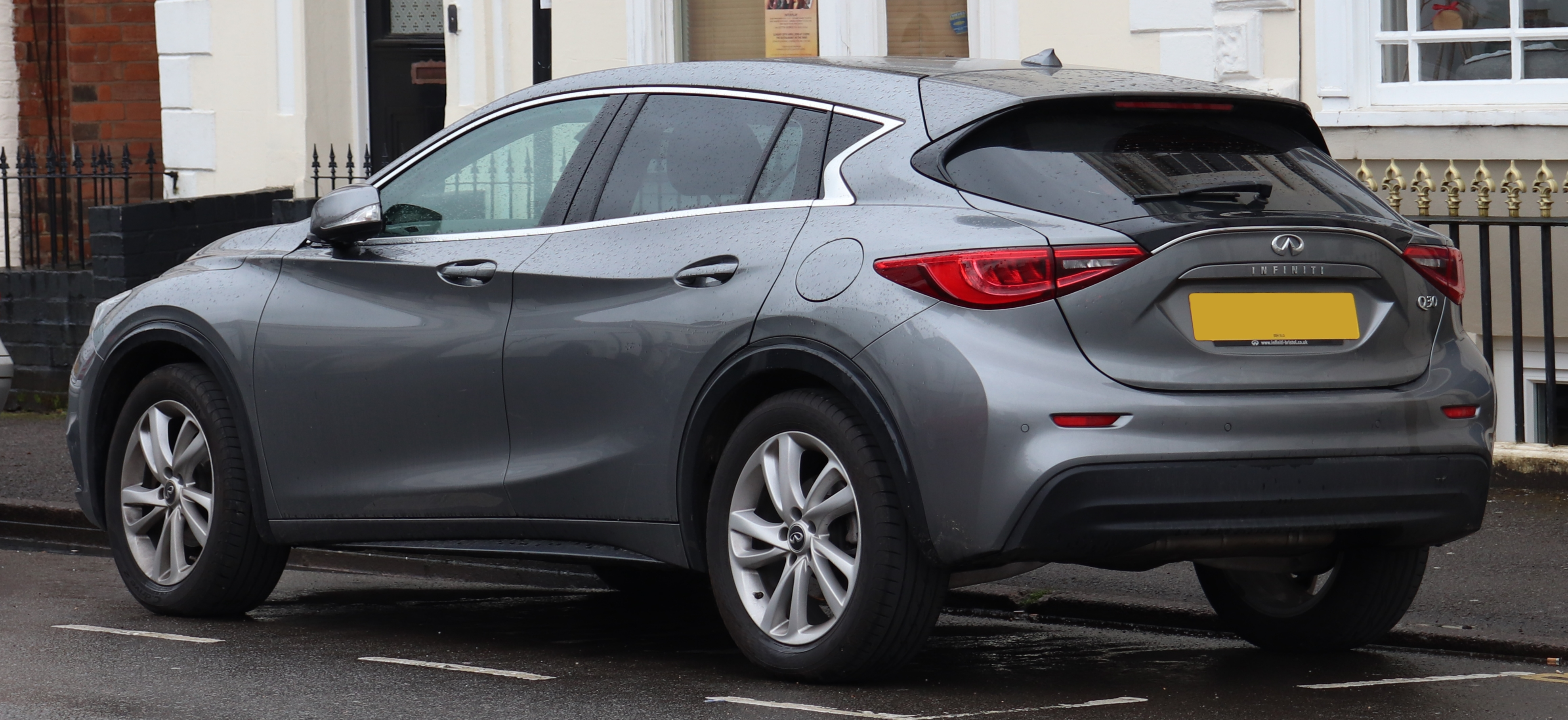 2017 Infiniti Q30 SE Diesel 1.5 Rear Taken in Leamington Spa